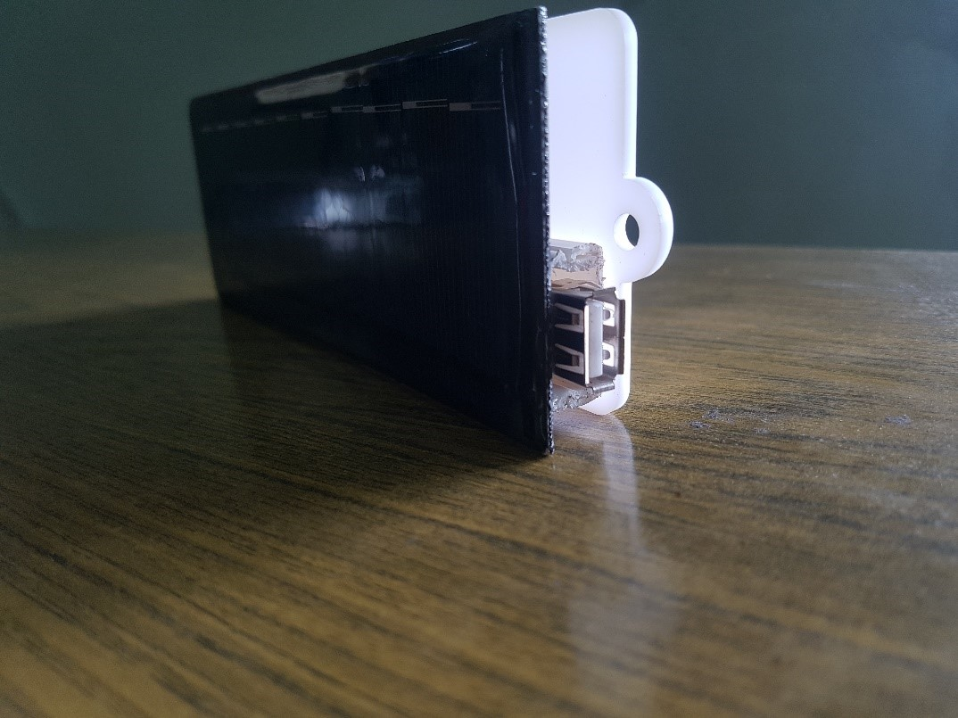 solar mobile charger